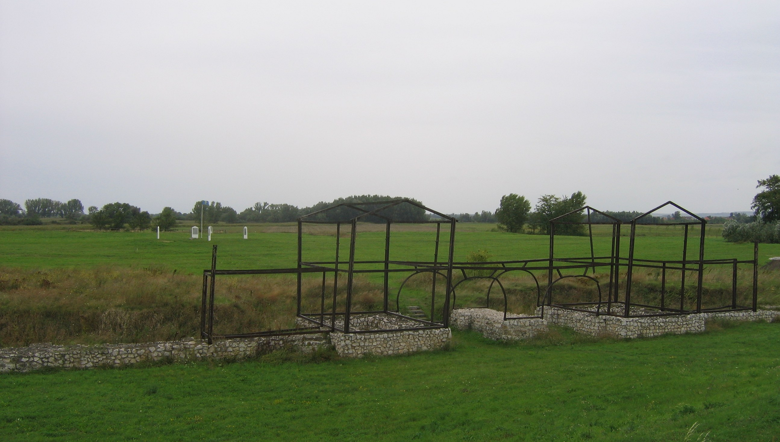 Kalamantia, remainders of fortified Roman camp near Komárno, Slovakia, 2.-4. century a.c., geographical position 47°44'37"N 18°11'57"E